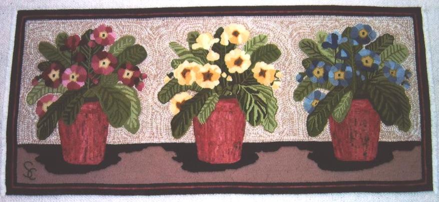 A hooked rug made by a craftsperson in Lebanon, New Hampshire, USA. Rug hooking was originally developed in New England as a method of using leftover scraps of cloth. Photograph and rug by Shirley Chaiken. Uploaded by Alison Chaiken.